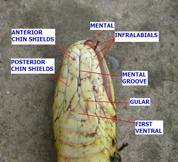 Scales on a snake's head. (Photo ). Original photo is of Buff-striped Keelback Amphiesma stolata Family Colubridae, Serpentes.